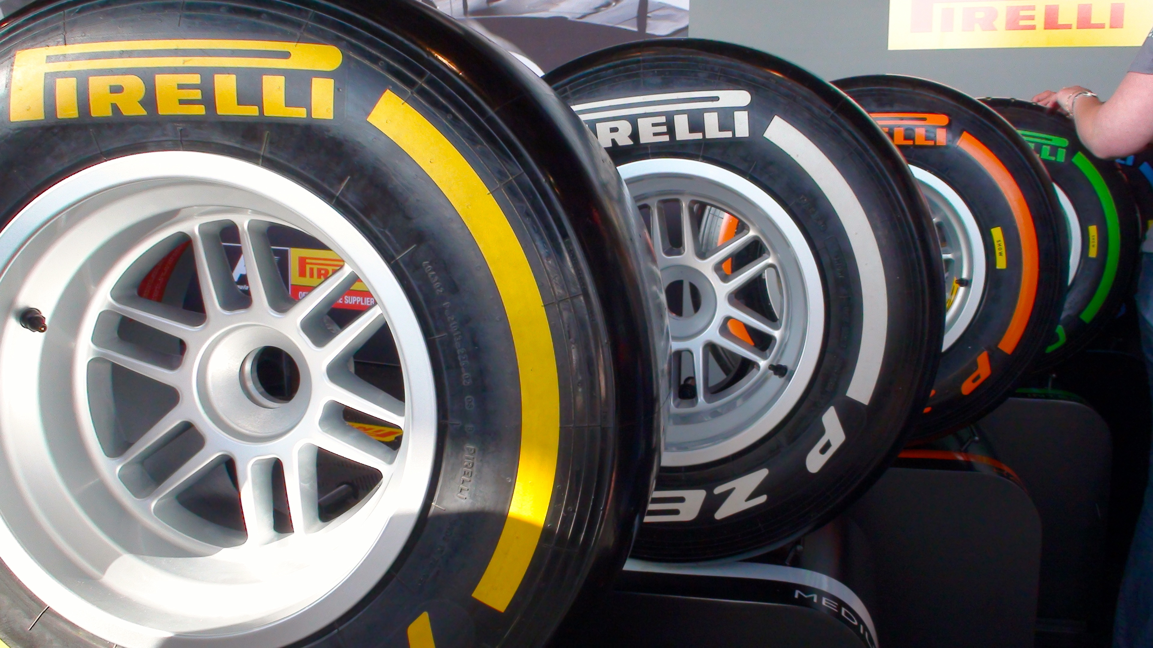 Pirelli Formula One tires at the 2013 British Grand Prix